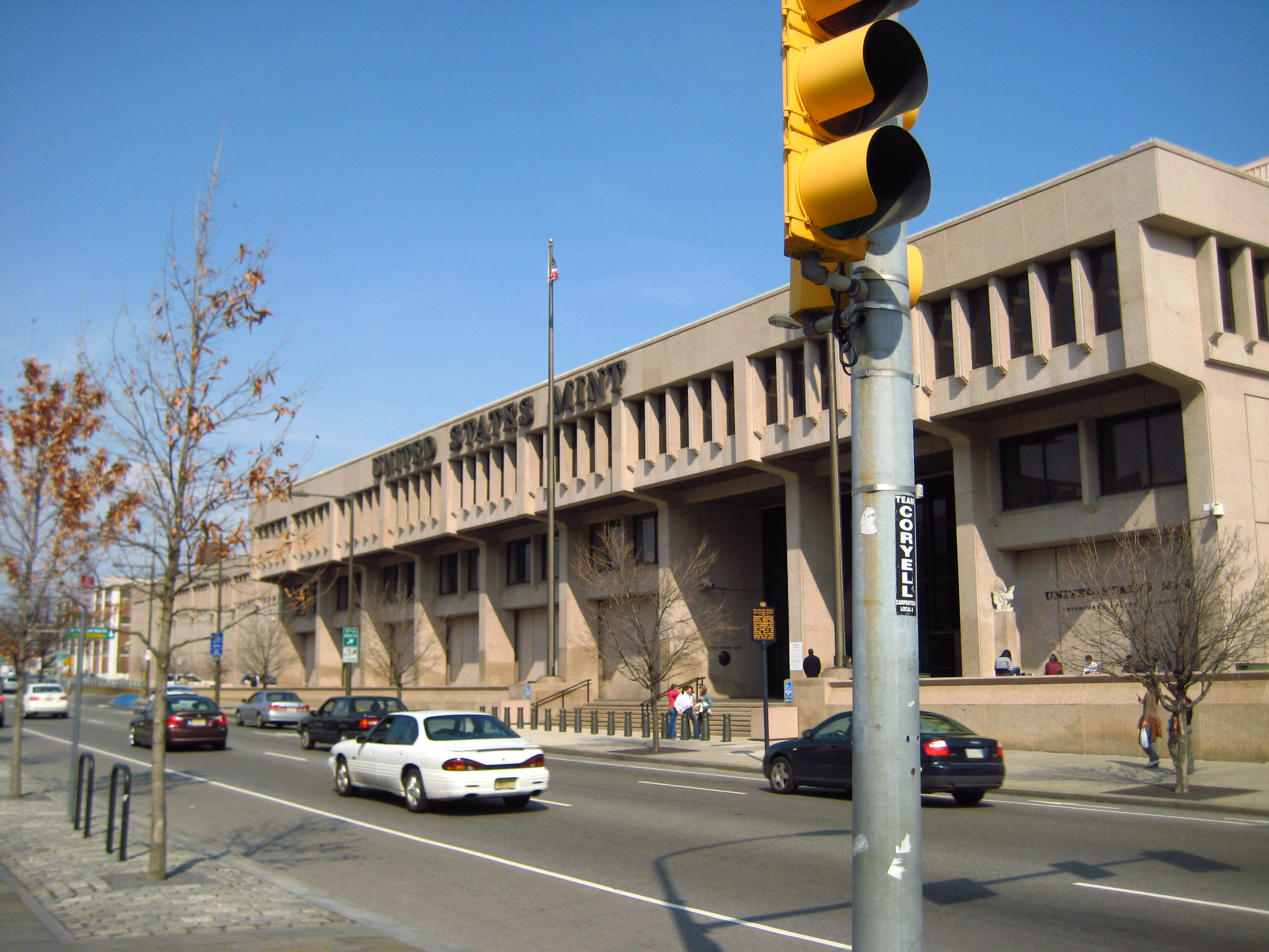 United States Mint- Philadelphia, PA